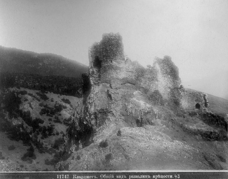 Klarjeti castle ruins